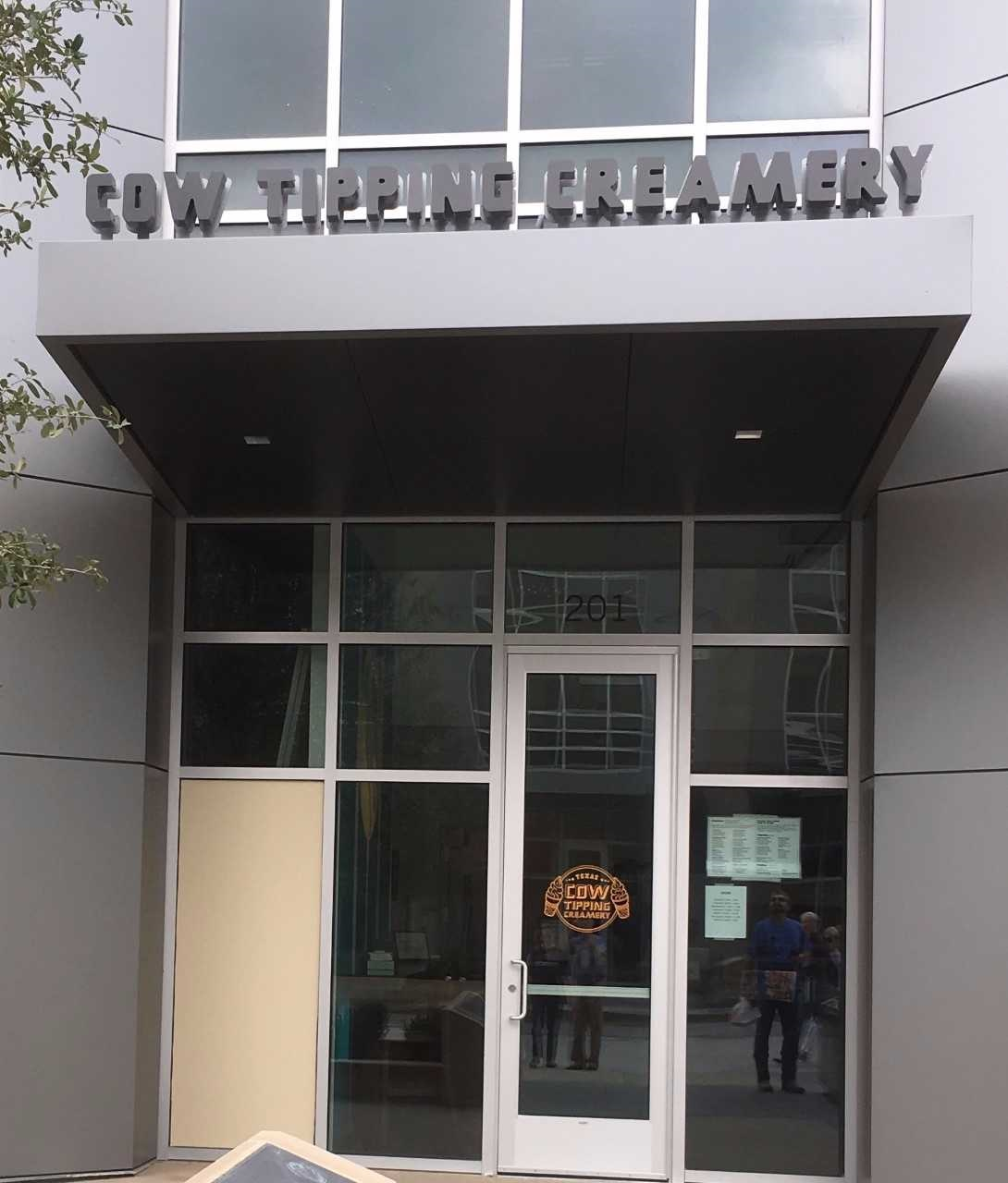 Cow Tipping Creamery in Frisco, Texas, at the Dallas Cowboys' Star complex